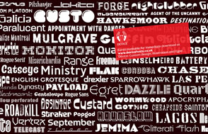 Rian Hughes' fonts